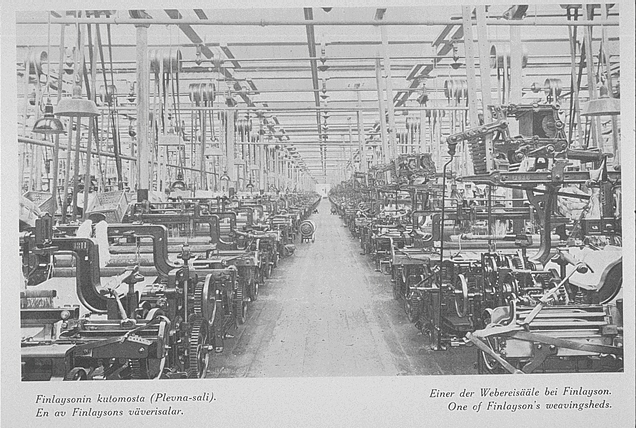 Original caption: One of Finlayson's weavingshedsA weavingshed of Finlayson & Co in Tampere, Finland. At that time, the Finlayson cotton mill employed ove 5.000 people.